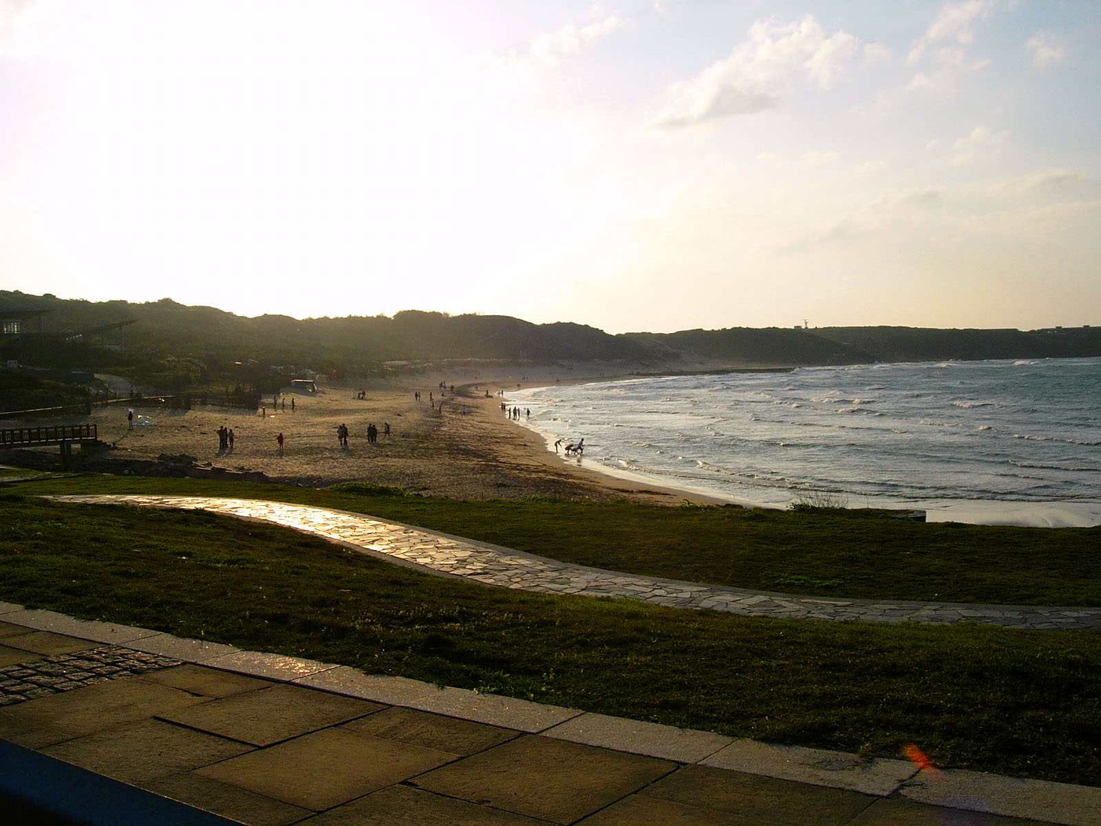 Sunset, Sanjhih Beach.